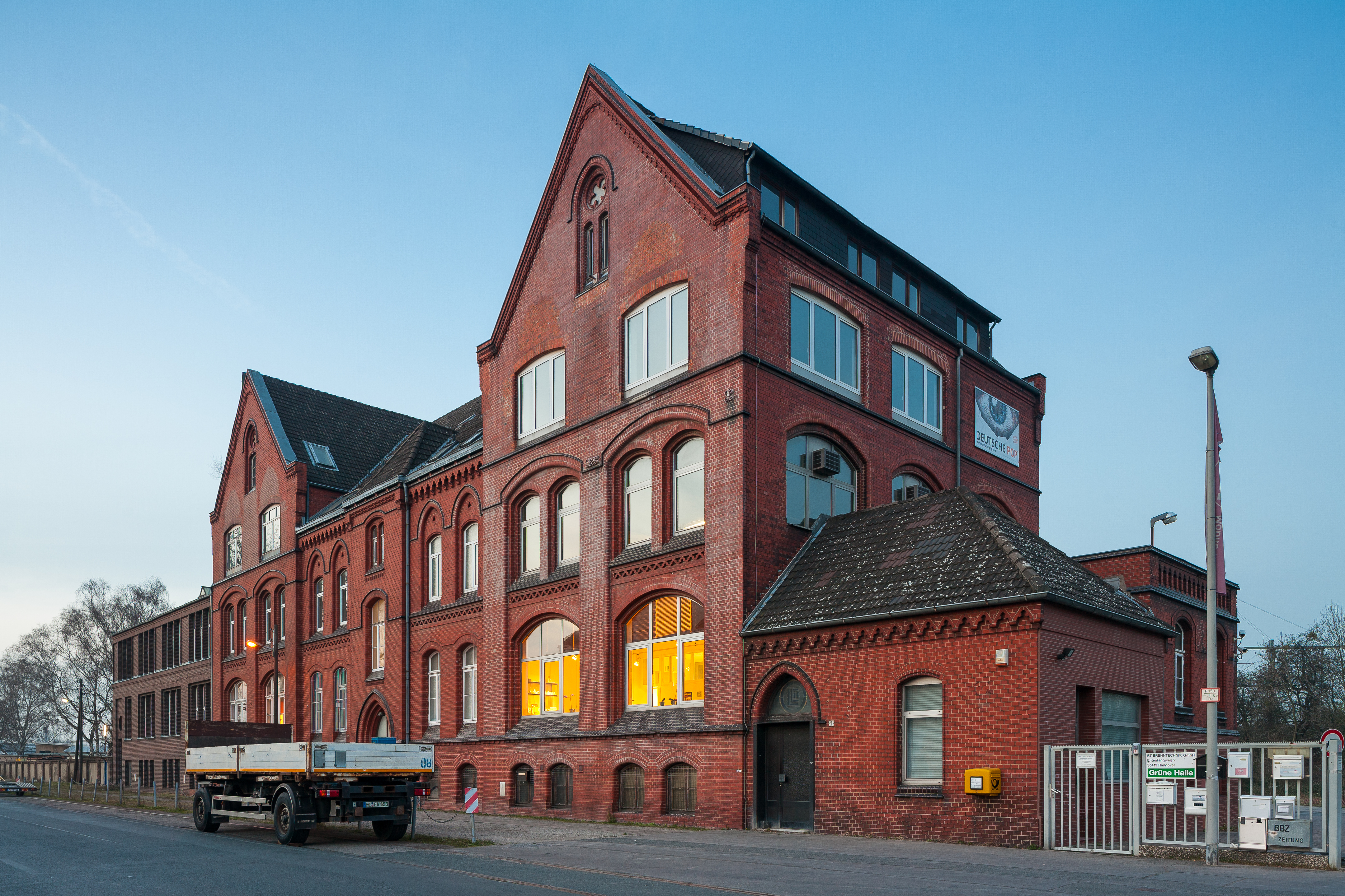 Administration building of the former steel construction company "Louis Eilers". Located at Entenfangweg 2 in Hanover, Germany.